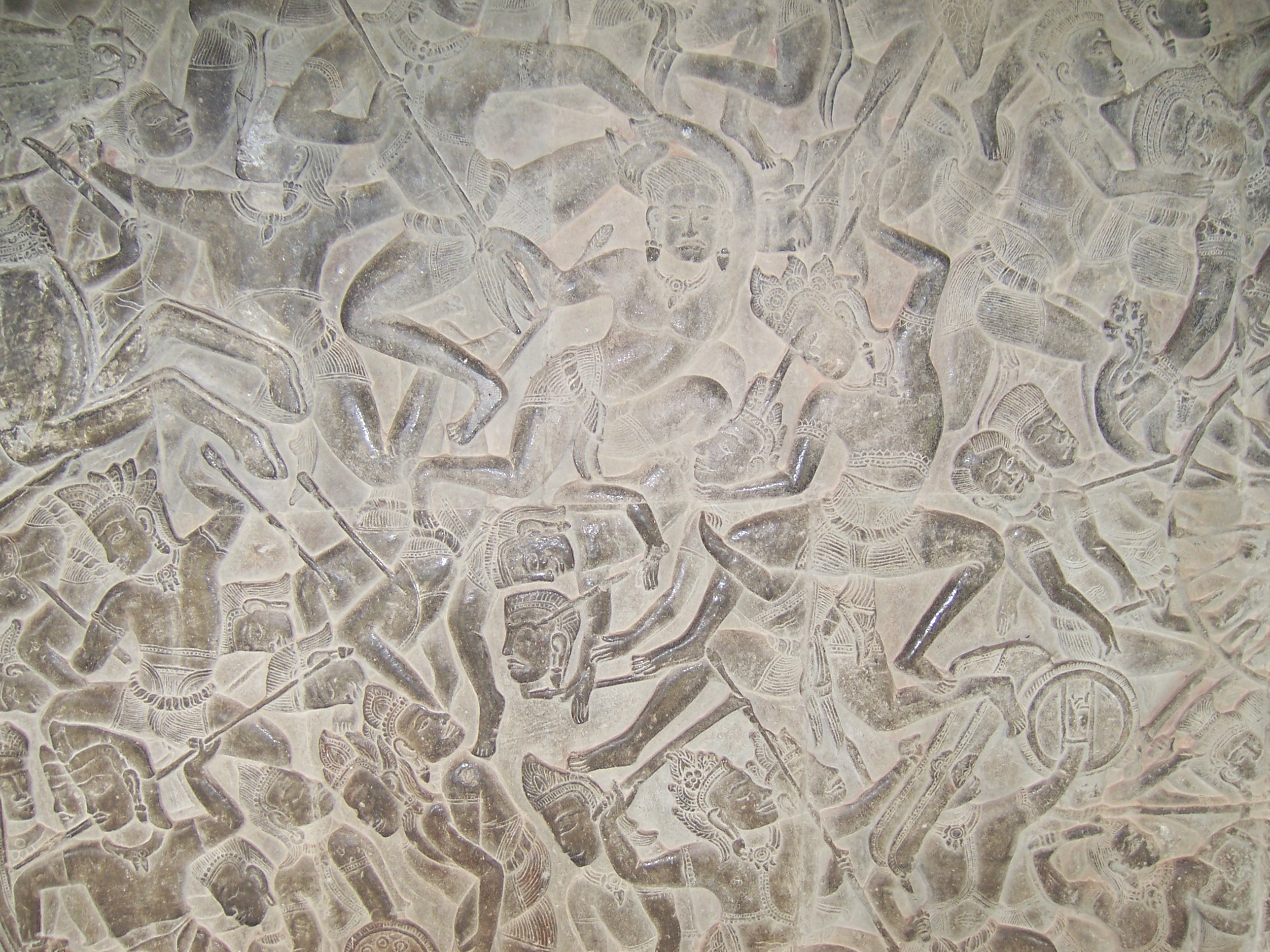 Details of a wall sculpture at Angkor Wat (Angkor temples), north of Siam Reap, Cambodia